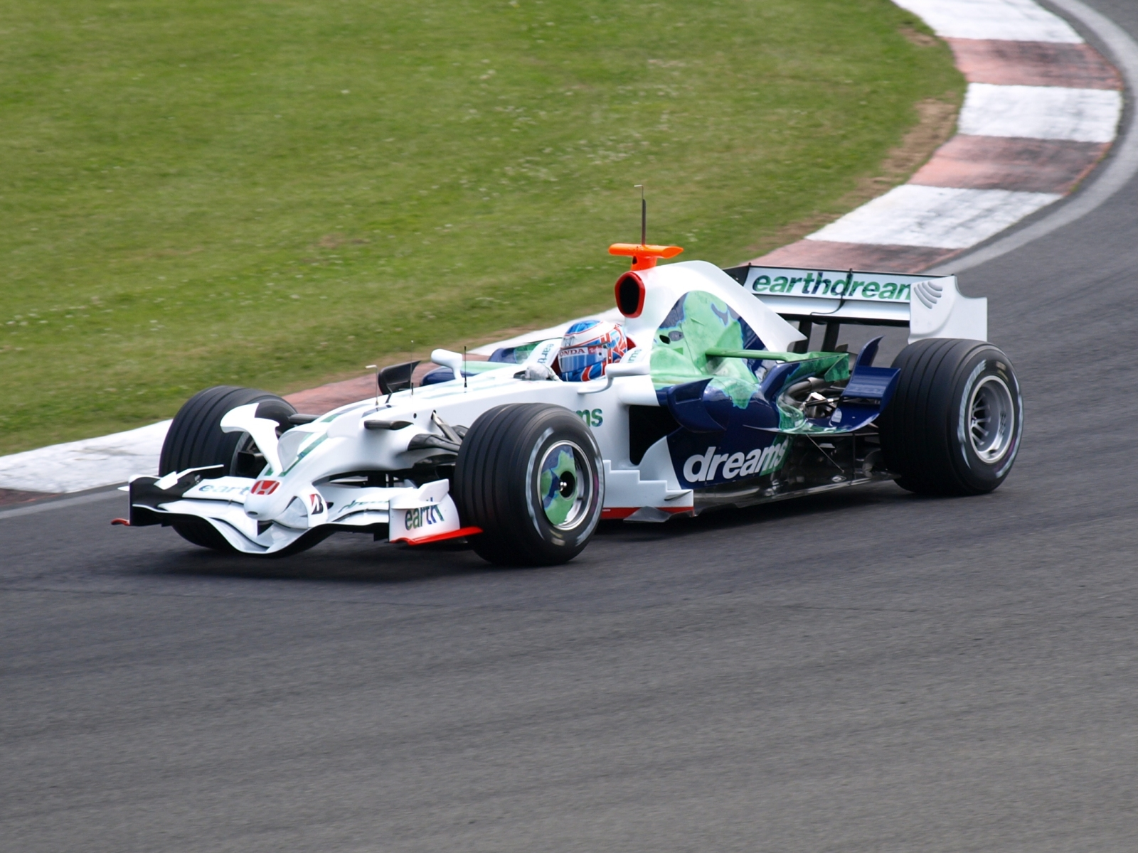 Jenson Button testing for Honda F1 at Silverstone Circuit, June 2008.